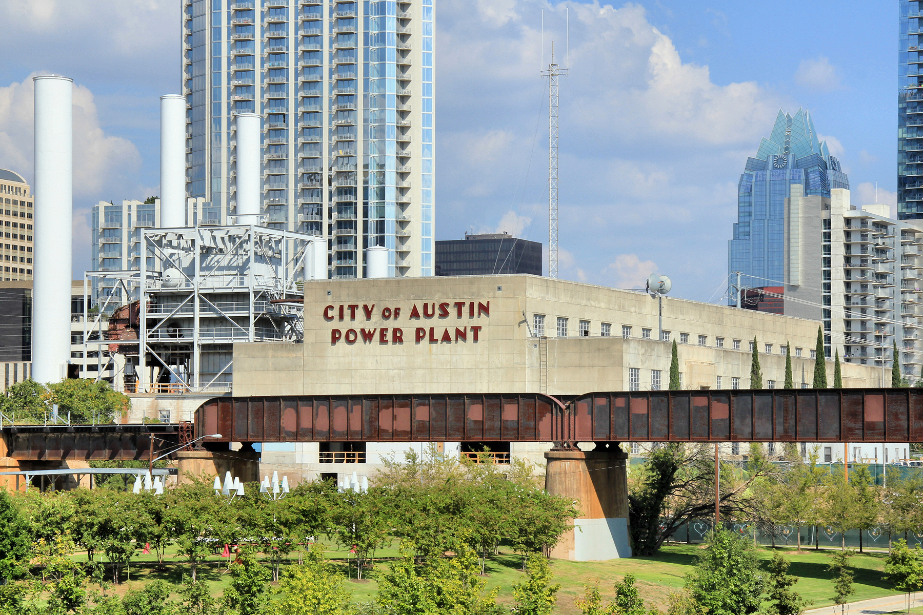 The former Seaholm Power Plant located in the Seaholm District of downtown Austin, Texas, United States. The Streamline Moderne building, built circa 1955, was designated a Recorded Texas Historic Landmark in 2007 and listed on the National Register of Historic Places on August 20, 2013. The site is being developed into a landmark residential, office and retail destination.